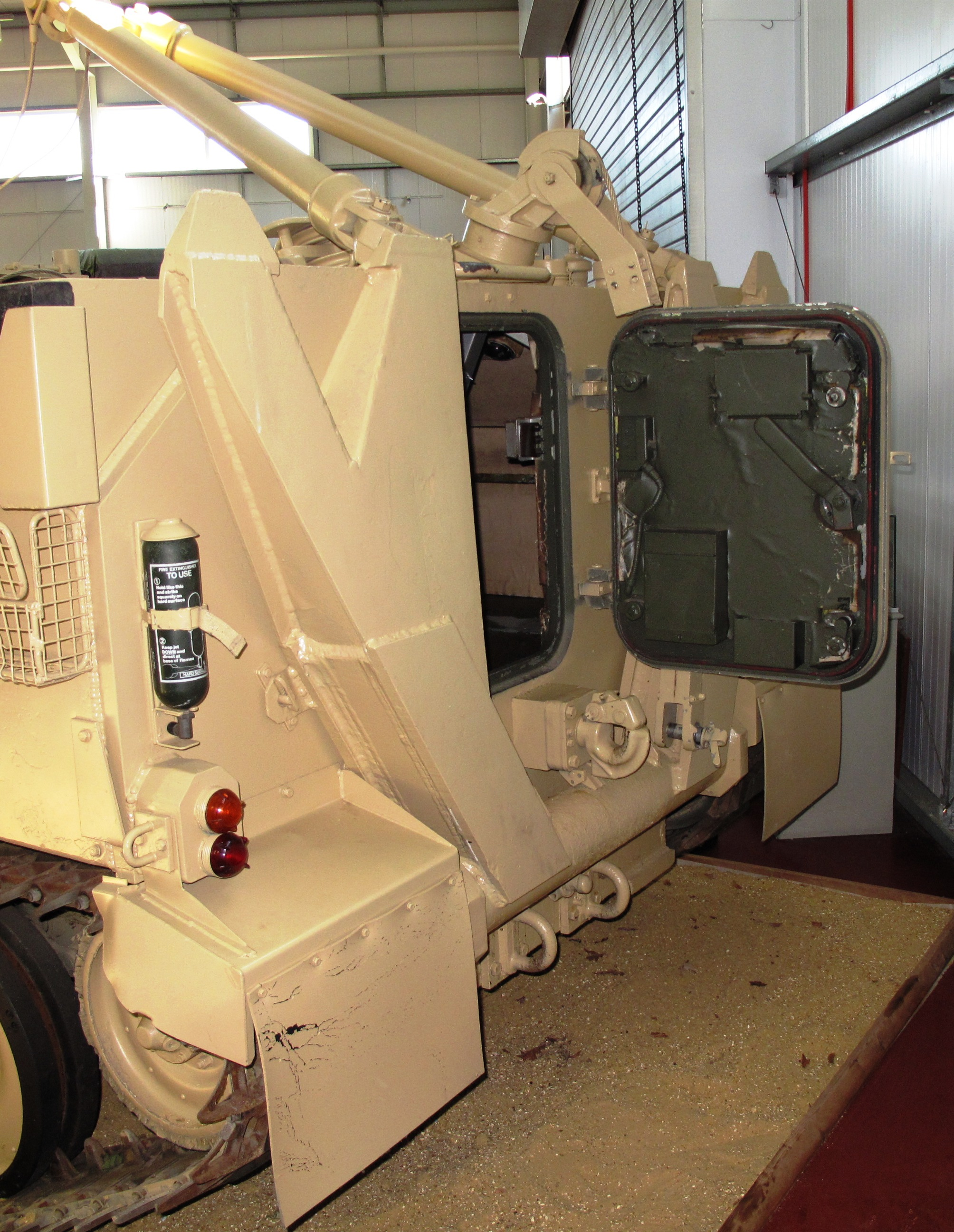 Rear View of a Samson CVR(T) Recovery Vehical. Note the rear crew hatch, A frame and anchor.